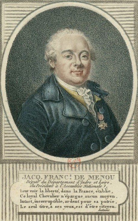 Jacques-François de Menou, deputy of the department of Indre and Loire, President of the National Assembly